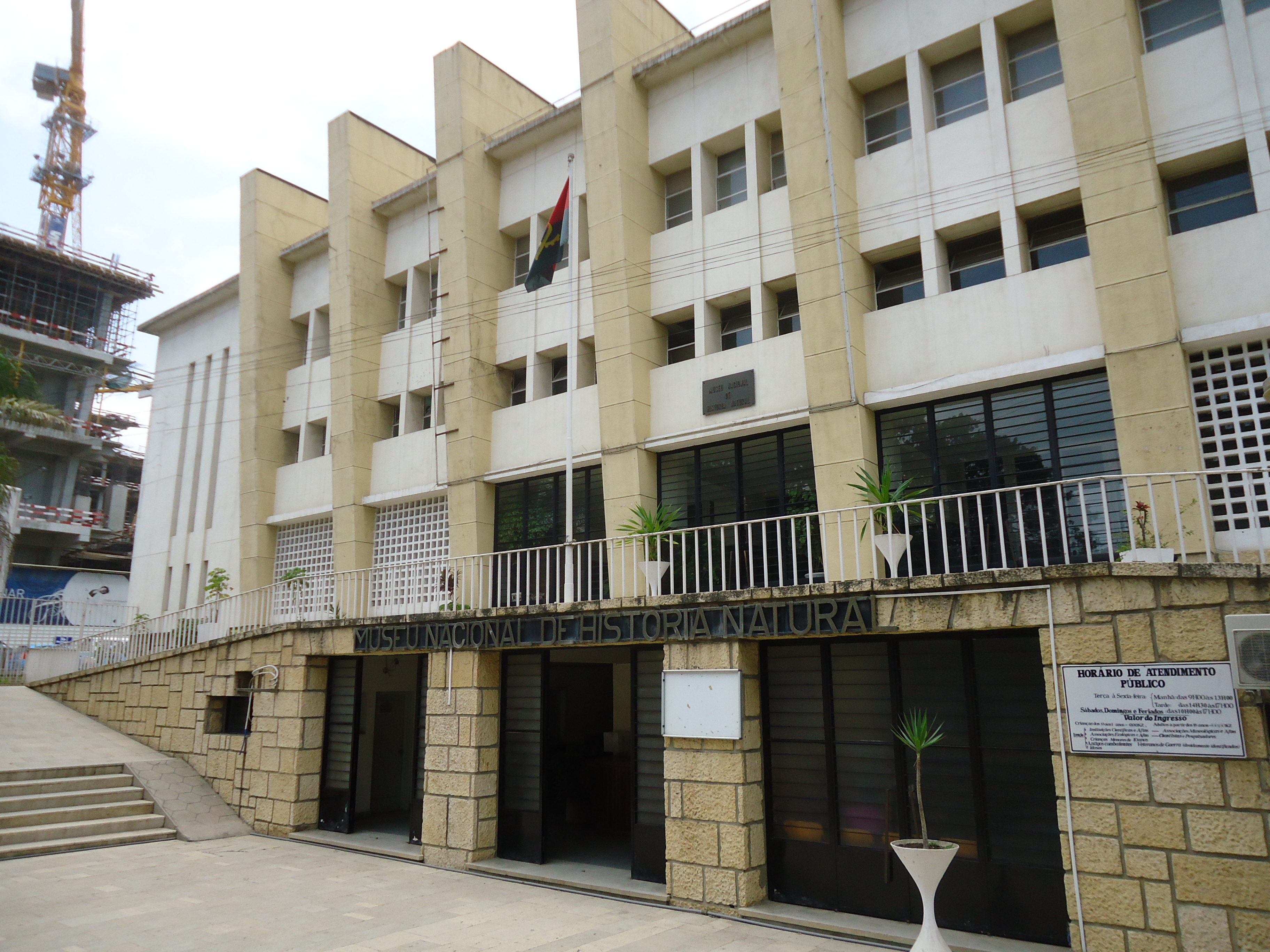 Streets and buildings of Luanda. Photo by Fabio Vanin, Luanda, 2013.